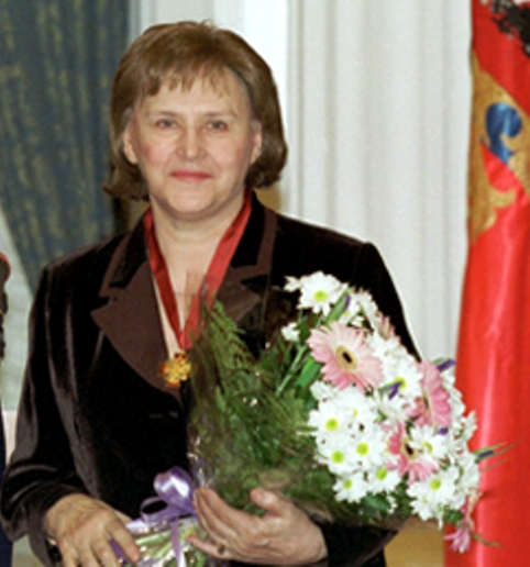 THE KREMLIN, MOSCOW. Film actress Nonna Mordyukova receiving the Order for Service to the Fatherland, 3rd Class at a state award ceremony.